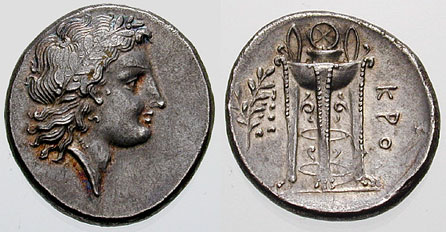 Bruttium, Kroton. Circa 330-300 BC. AR Nomos (7.40 g). Laureate head of Apollo right KPO, ornate tripod; filleted branch to left. SNG ANS 398ff; SNG Lockett 515; SNG Lloyd 623. Lightly toned EF, flatly struck on high points, attractive style. From the William N. Rudman Collection.